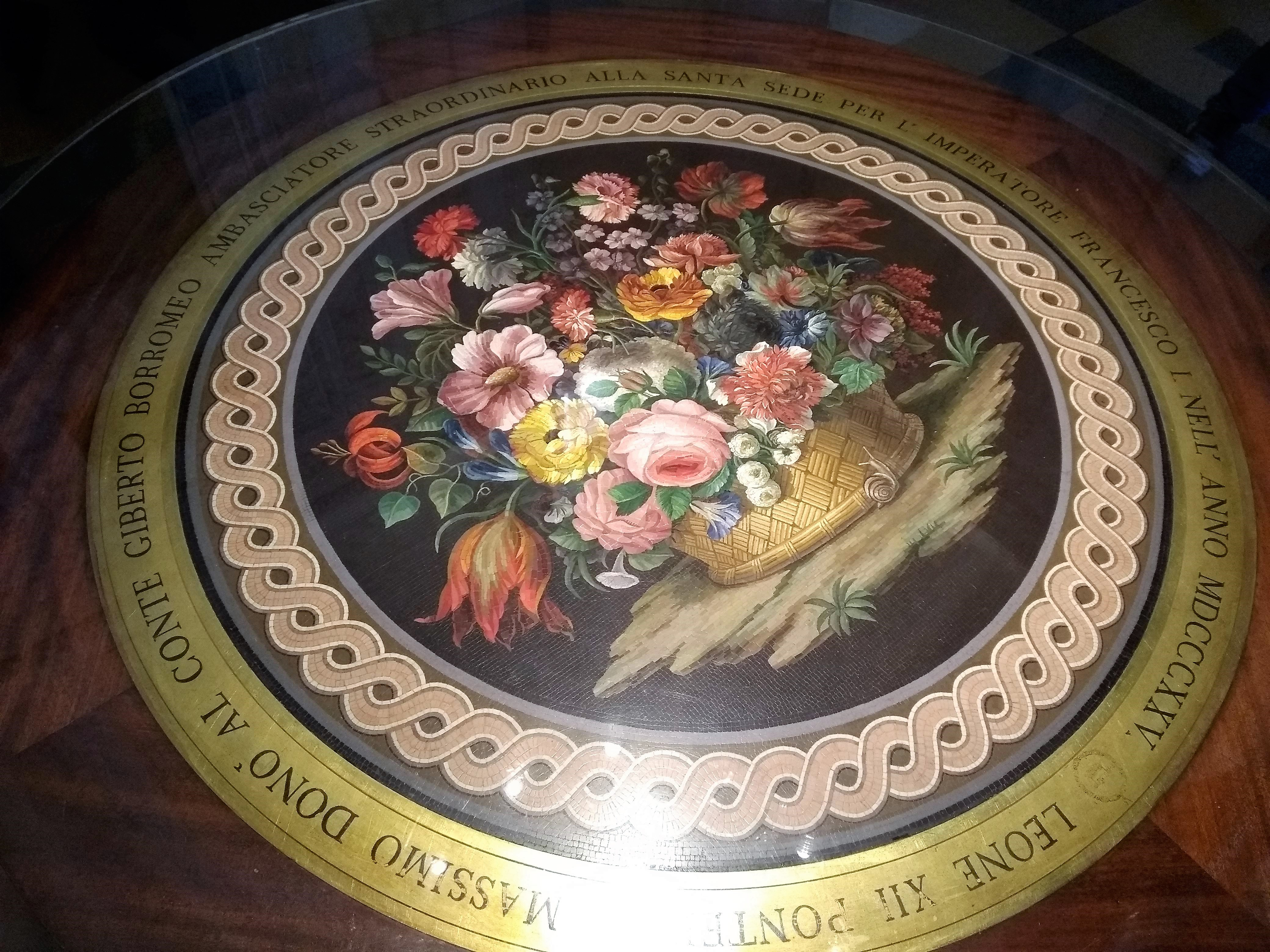 A table in Isola Dei Pescatori, Piedmont, Italy commemerates the visit of the King of Naples in 1825.